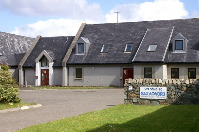 Saxa Vord Resort, Haroldswick The main buildings, including the reception, bar and restaurant, of Saxa Vord Resort are housed in the old Sergeants' Mess of the former RAF Saxa Vord. The camp was bought by a company called Military Asset Management in 2006, after the RAF pulled out, but less than three years later it was put up for sale again.